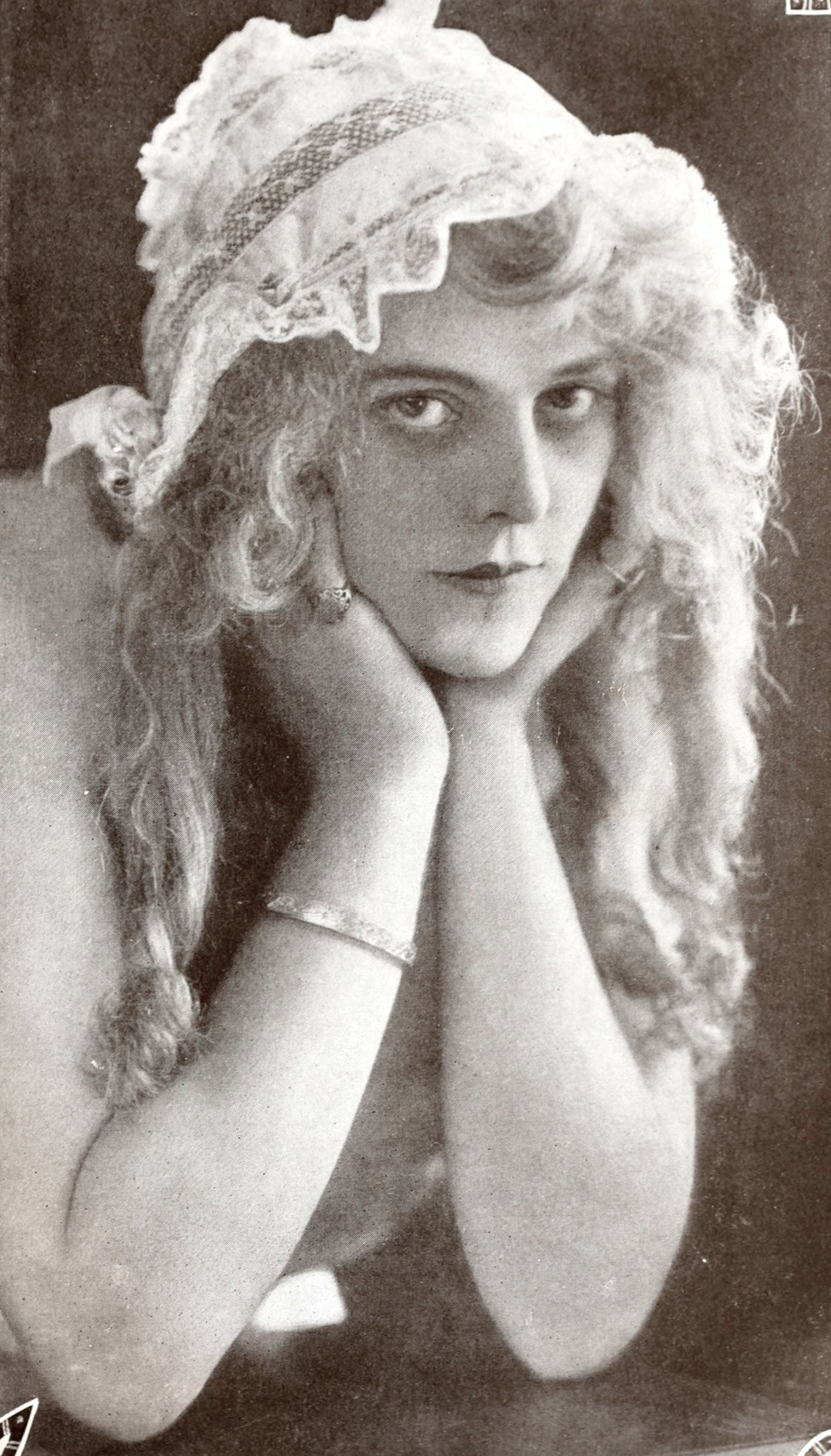 Lillian Worth (stage name), born Lillian Burgher Murphy, (June 24, 1884 – February 23, 1952) was an American actress. She appeared in 58 films between 1913 and 1937. In this magazine she was known as Lillian Wiggins due to her marriage at the time. This is a publicity image published in a magazine.